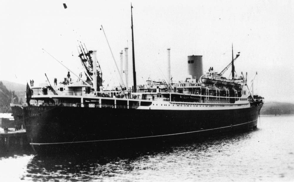 Rangitane (ship)